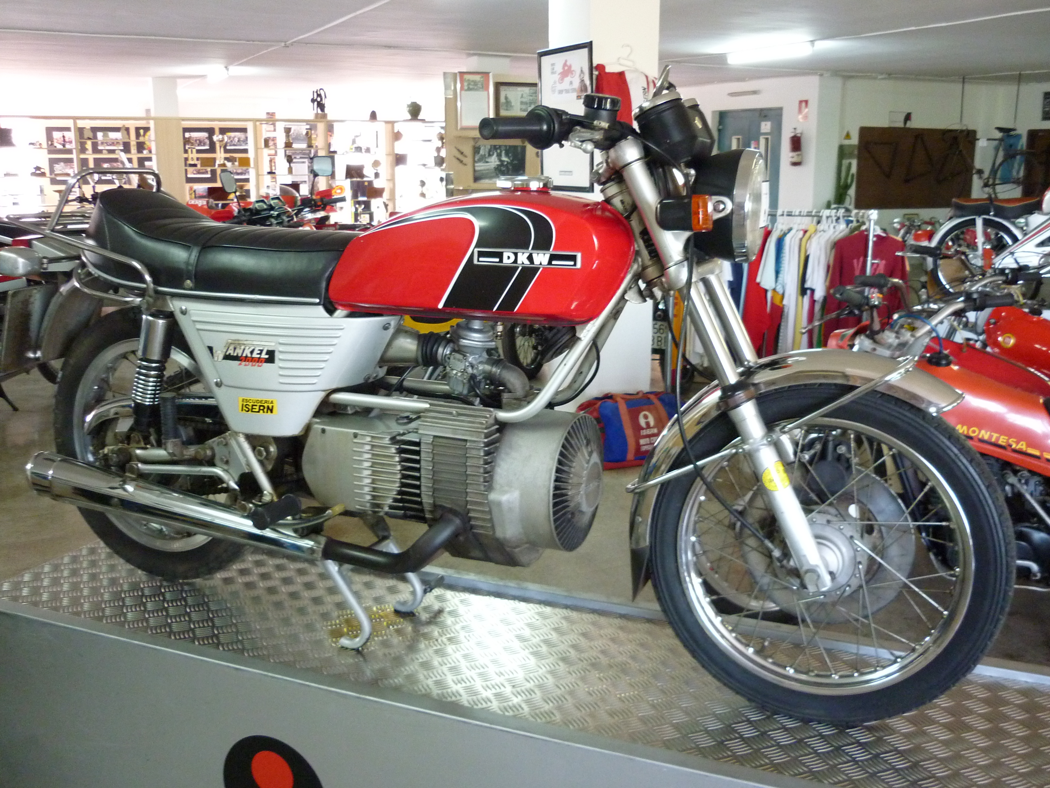 DKW with a Wankel 300cc rotary engine (1974).Isern Motorcycle Museum, Mollet del Vallès (Catalonia).